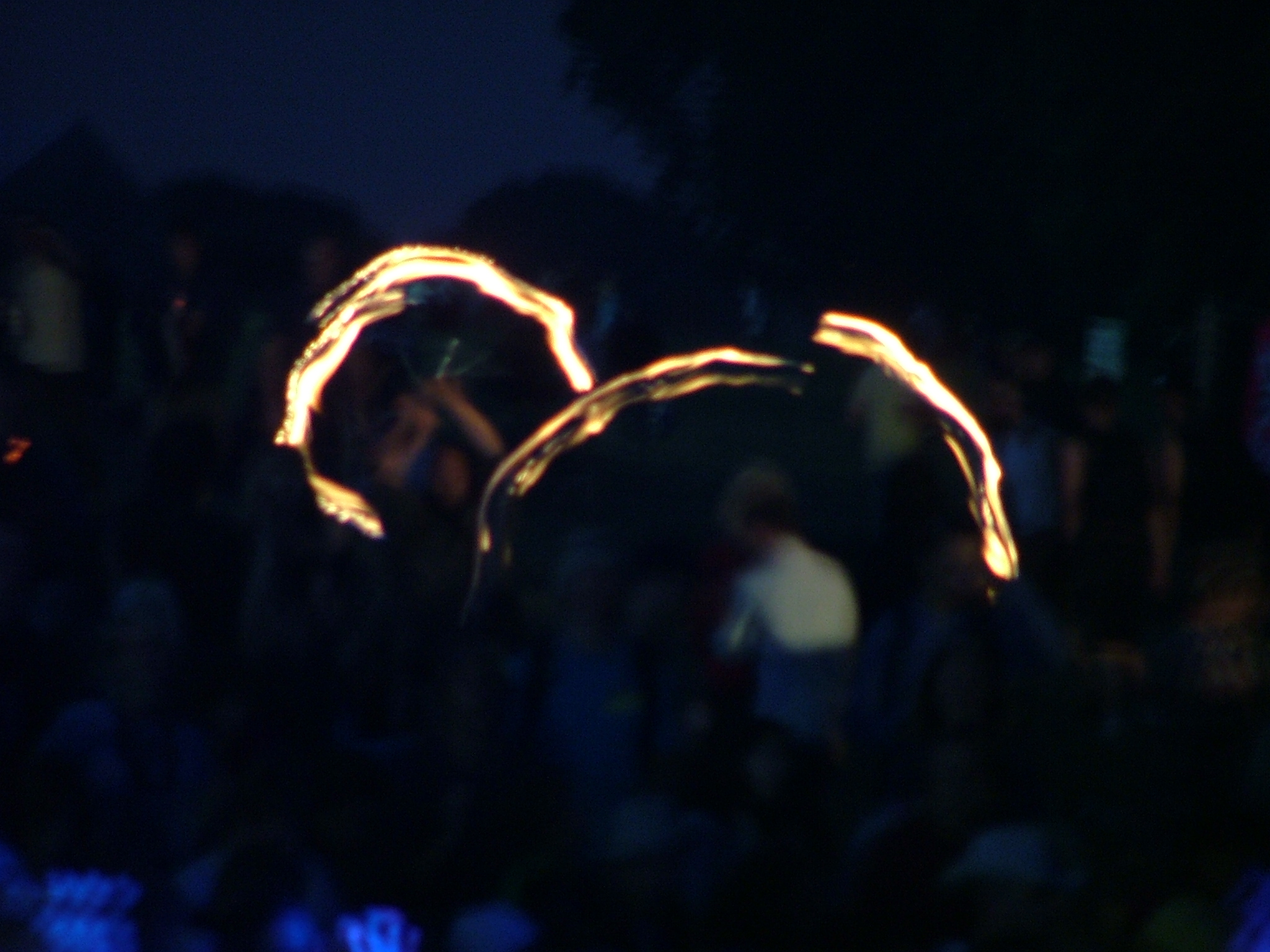 Fire twirlers at Ashton Court Festival 2005